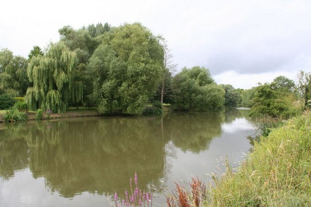 Along the island A view along the island in the Thames at Sutton Pool.